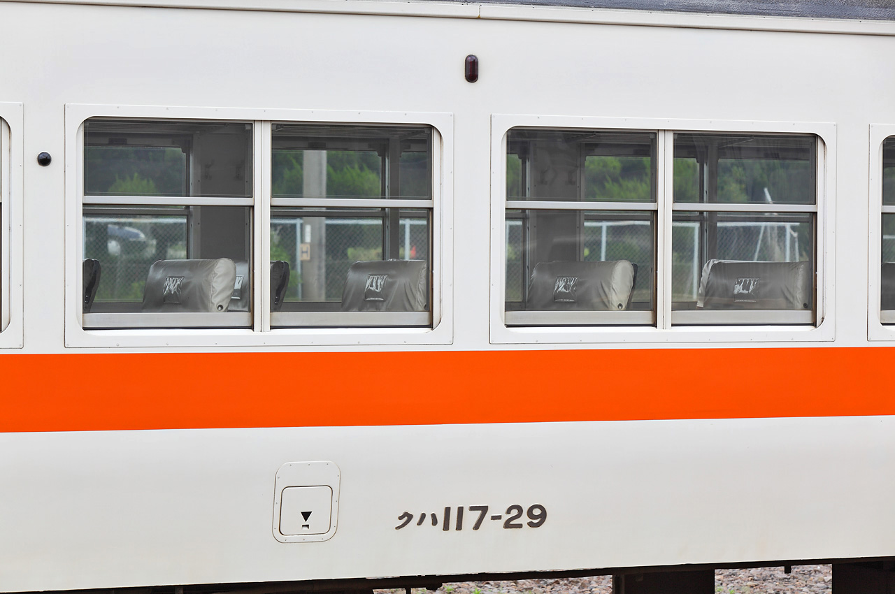 JNR 117 series EMU, belongs to the JR Central.